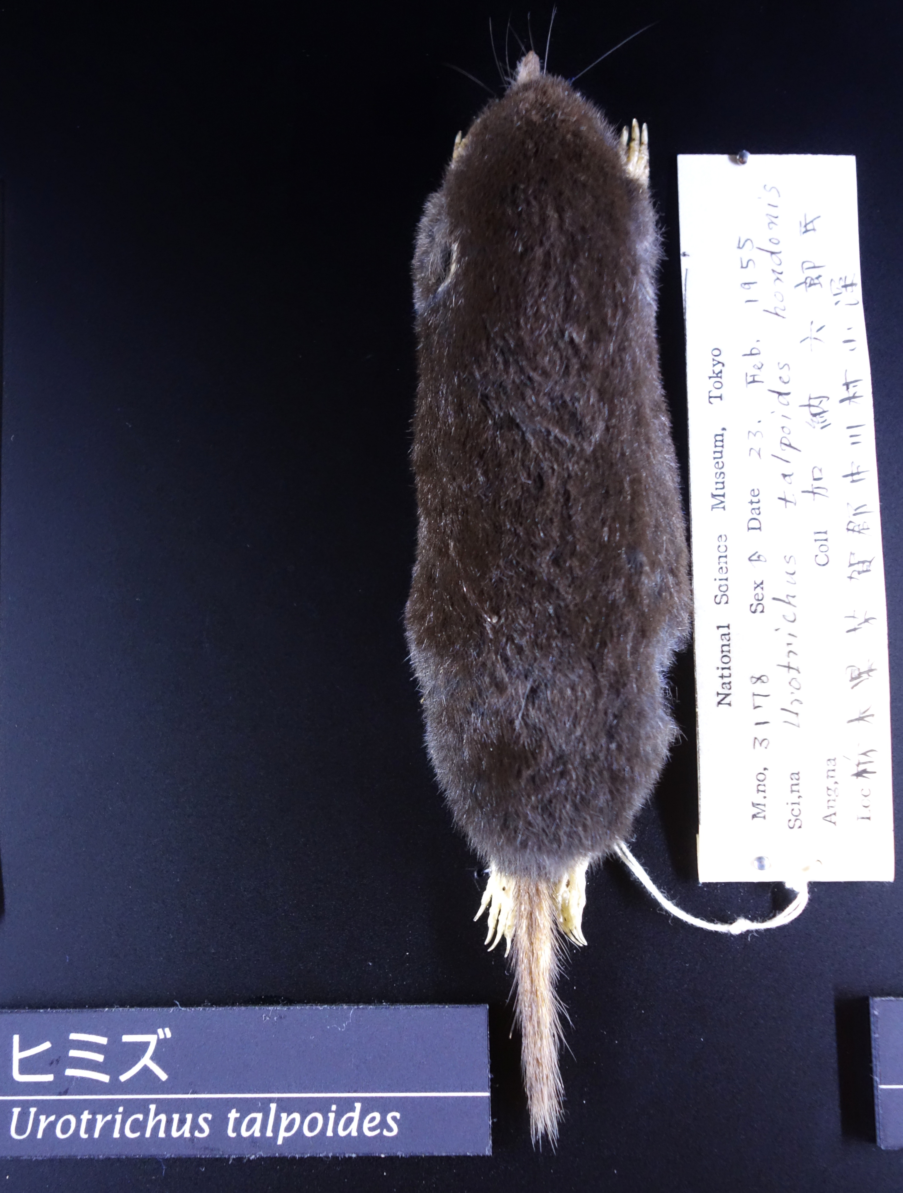 Exhibit in the National Museum of Nature and Science, Tokyo, Japan.